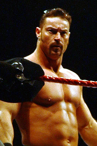 Rob Conway at a WWE house show in the MEN Arena in Manchester, United Kingdom on 17 November, 2005.